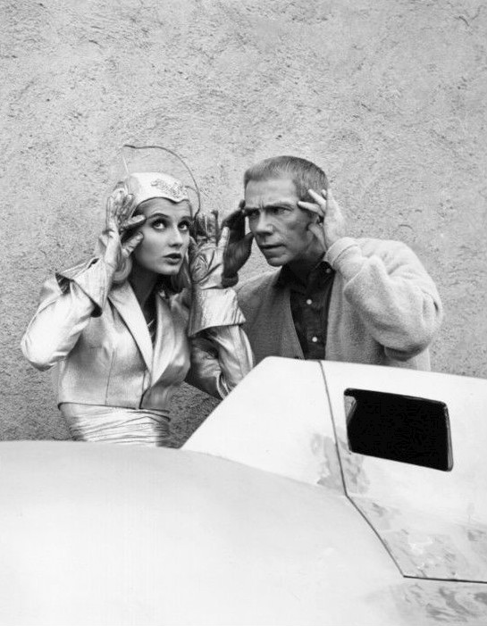 Photo of guest star Jill Ireland and Ray Walston from the television comedy My Favorite Martian. The episode is "Girl in the Flying Machine".